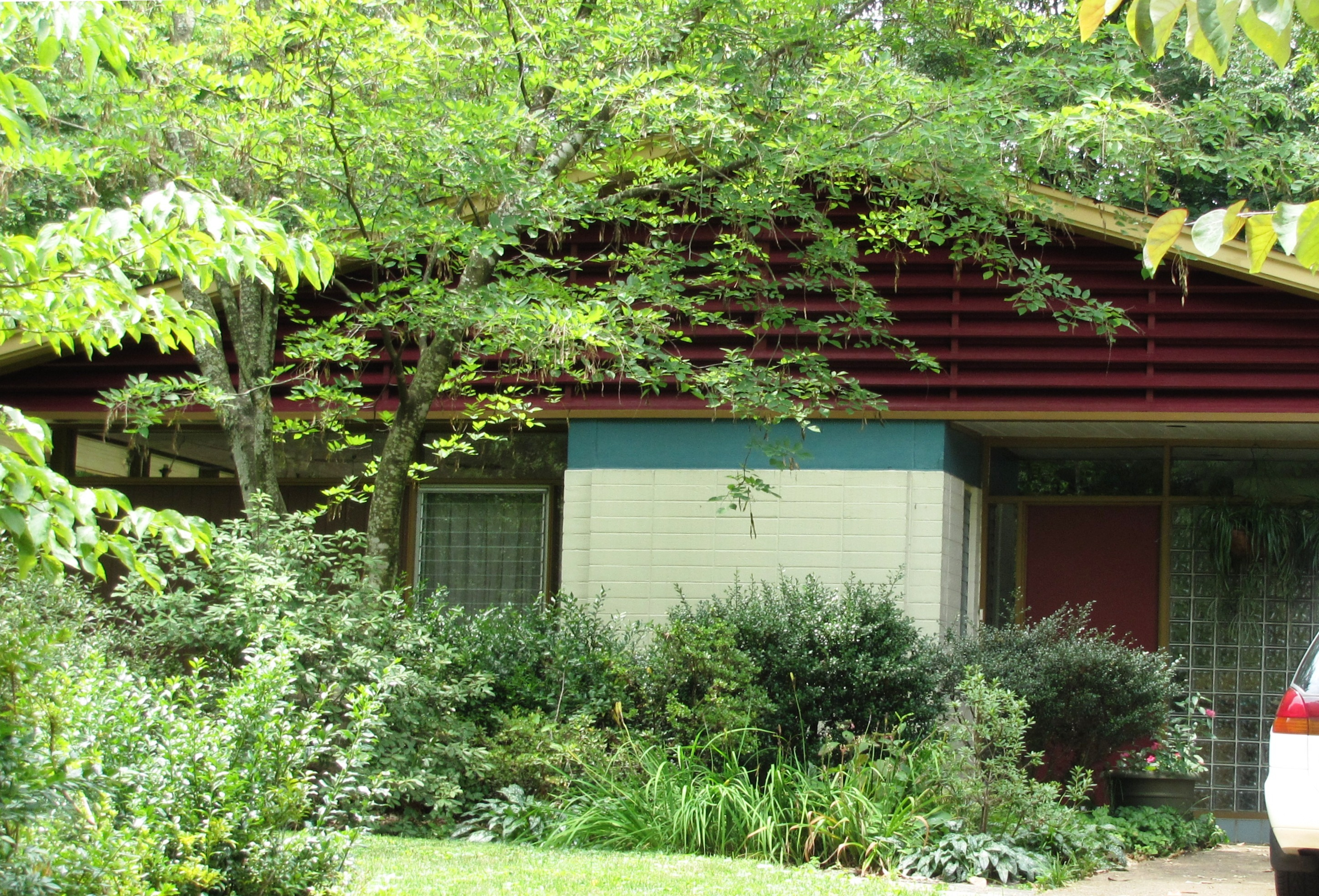 The Hotpoint Living-Conditioned House (509 W. Hills Avenue) in Knoxville, Tennessee, USA. Built in 1954 as a demonstration for starter homes, this house was one of the first houses in the West Hills neighborhood, and is now listed on the National Register of Historic Places.